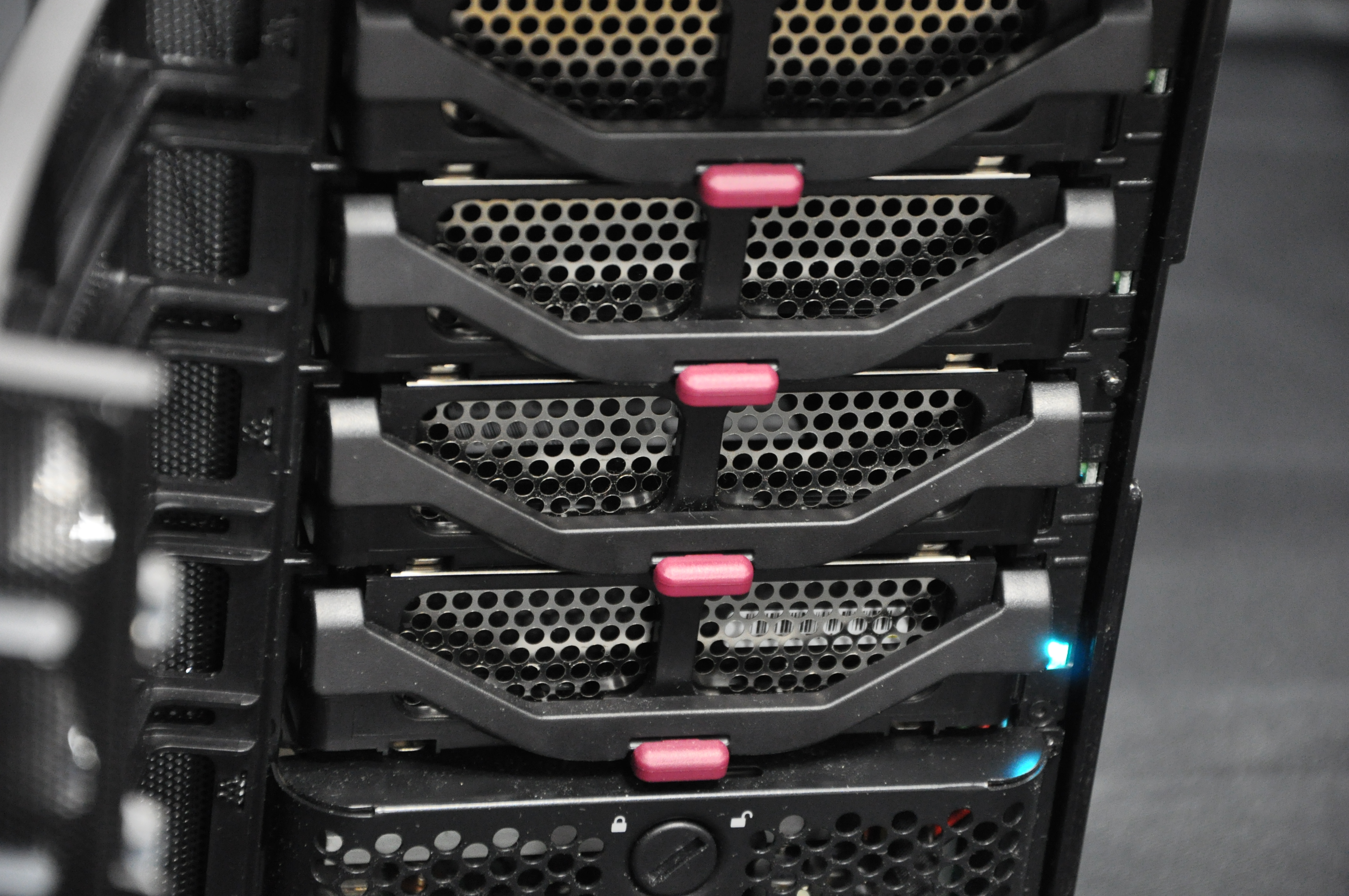 MediaSmart Server EX490_007